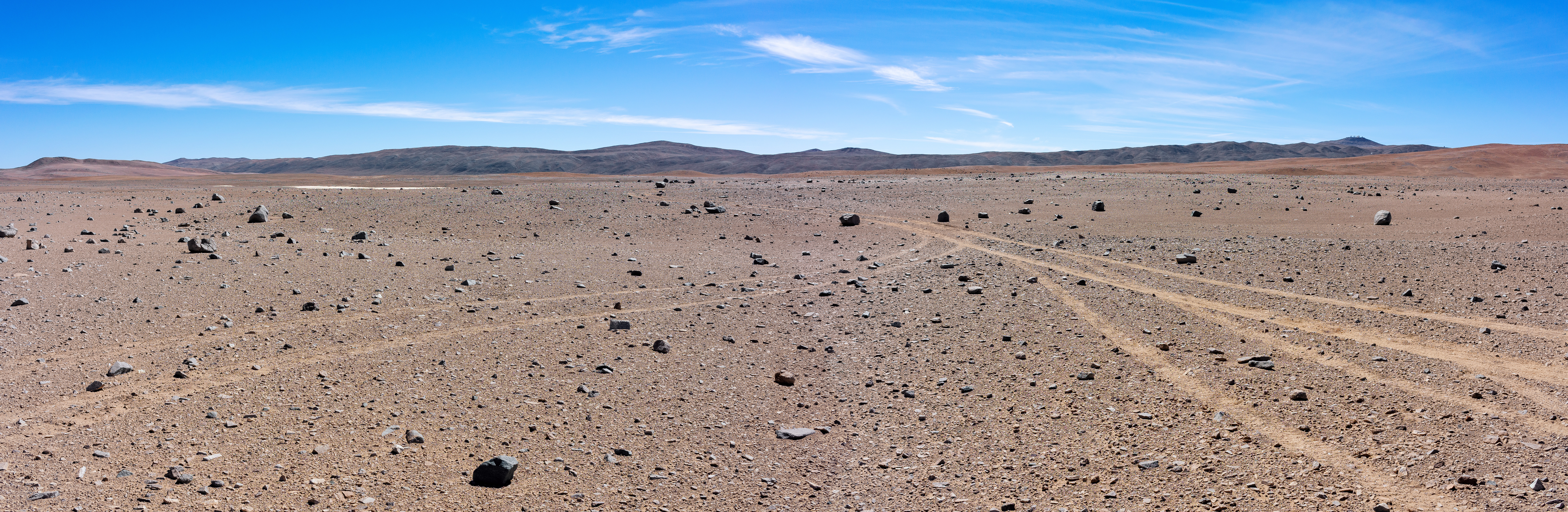 The Cherenkov Telescope Array project selected a site within the Paranal Observatory grounds as its southern site in July 2015, subject to successful negotiations. The CTA project is an initiative to build the next generation of ground-based instruments designed for the detection of very high energy gamma-rays. Gamma rays are emitted by the hottest and most powerful objects in the Universe — such as supermassive black holes, supernovae and possibly remnants of the Big Bang. The array will provide valuable deeper insights into the high-energy Universe.